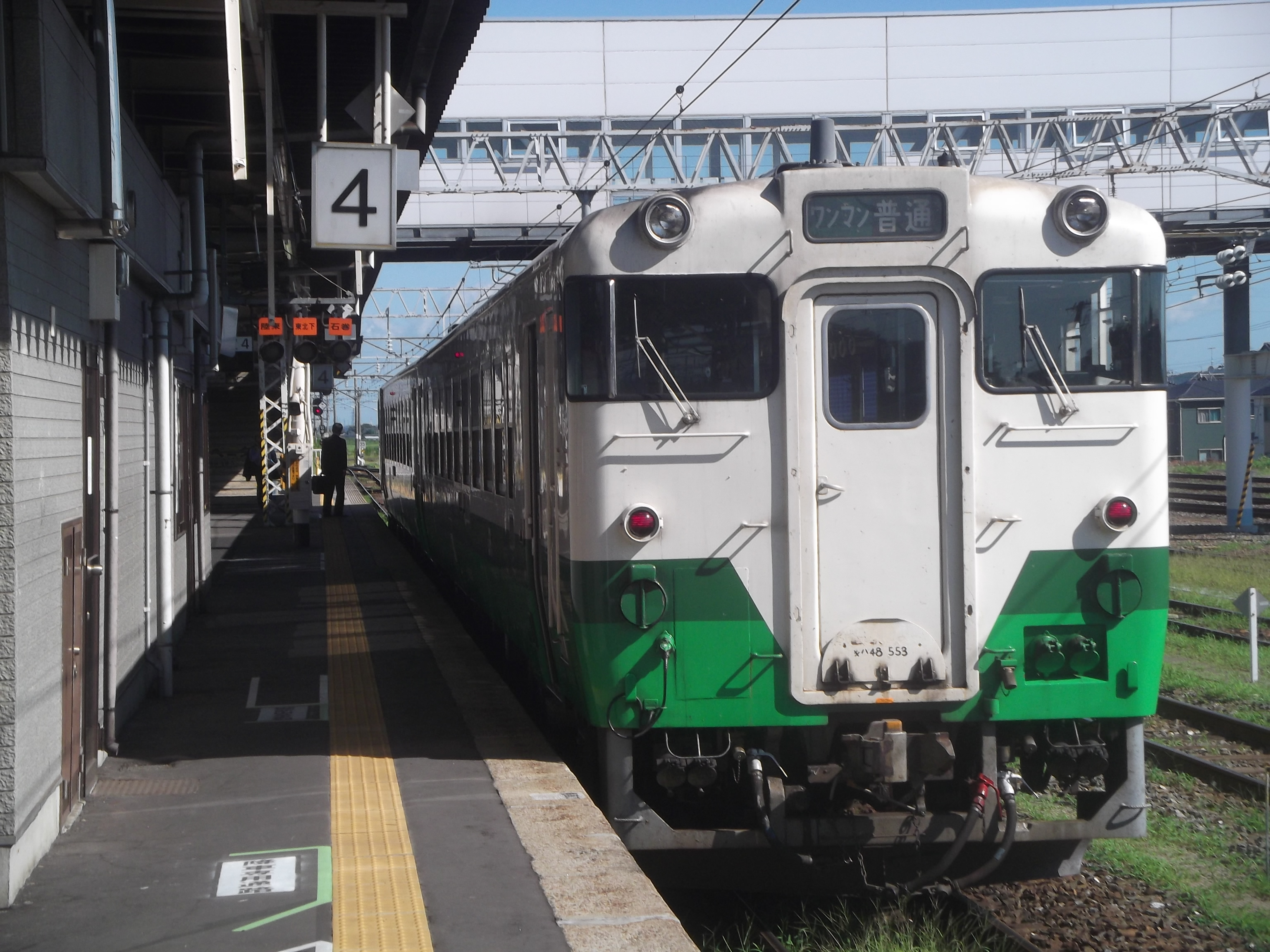 JR East Kiha 40 at Kogota station.